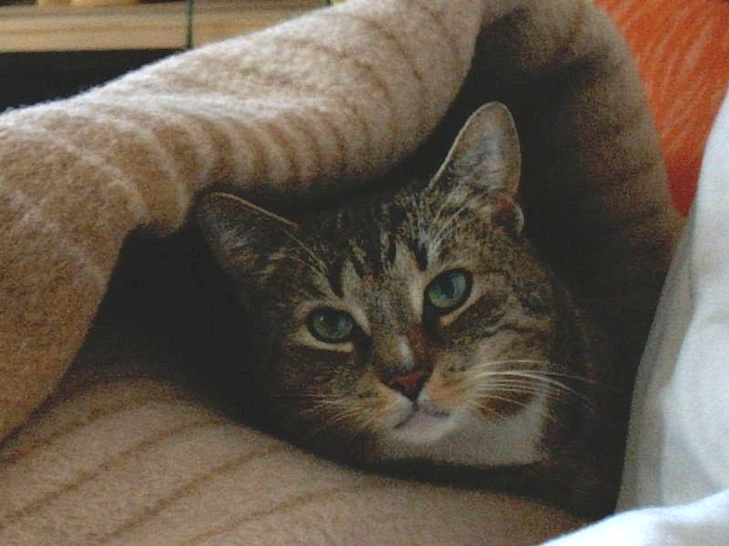 European shorthair cat, gray tabby, from Tierheim Bochum (sanctuary Bochum).